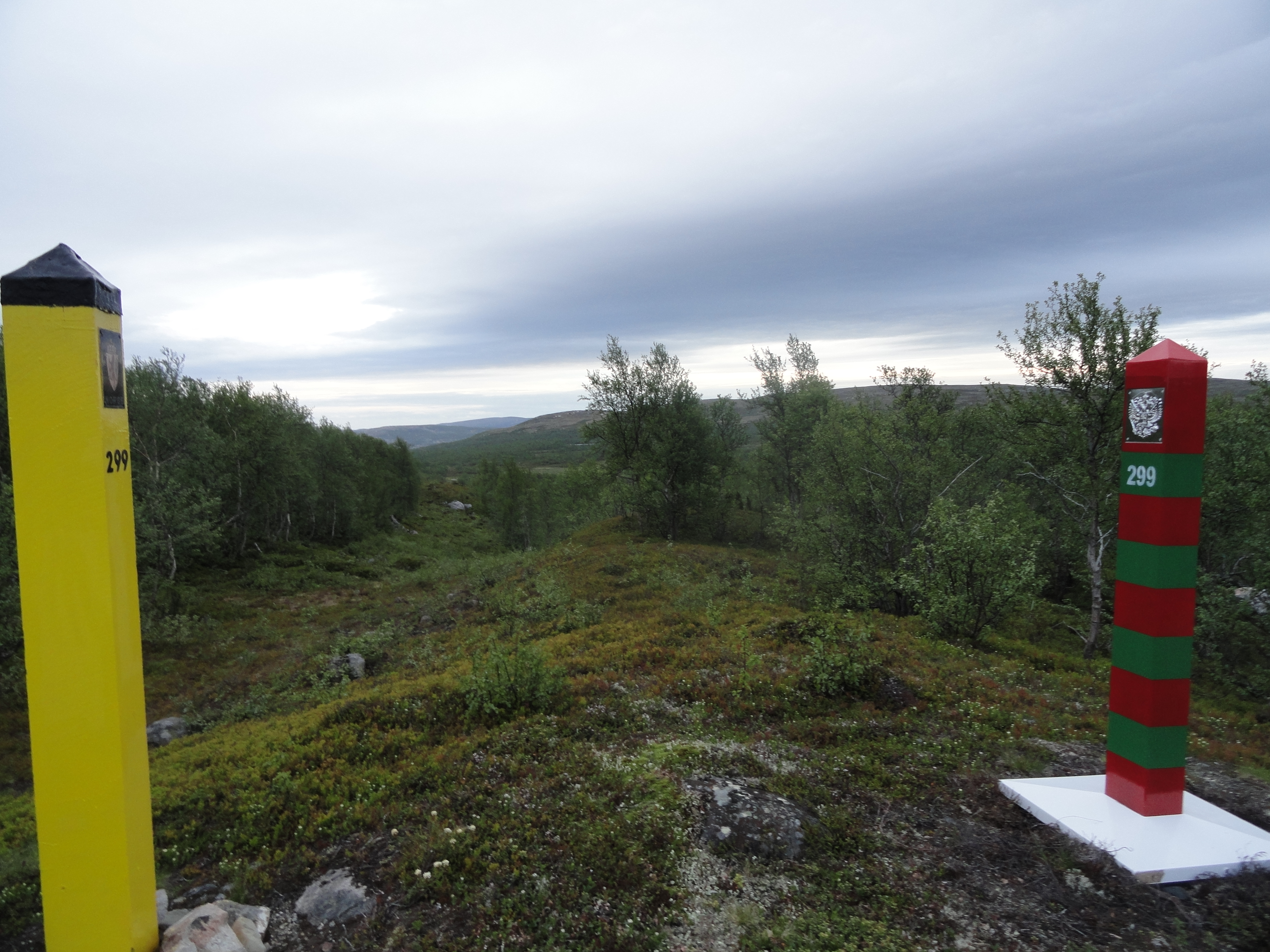 Border mark number 299 at the Norwegian-Russian border. The poles stands 4 m away from eachother. The border runs in the middle of the poles.